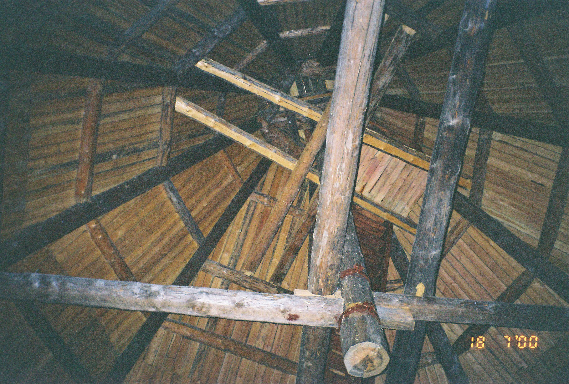 Rafter for the roof of tower in Oreshek fortress